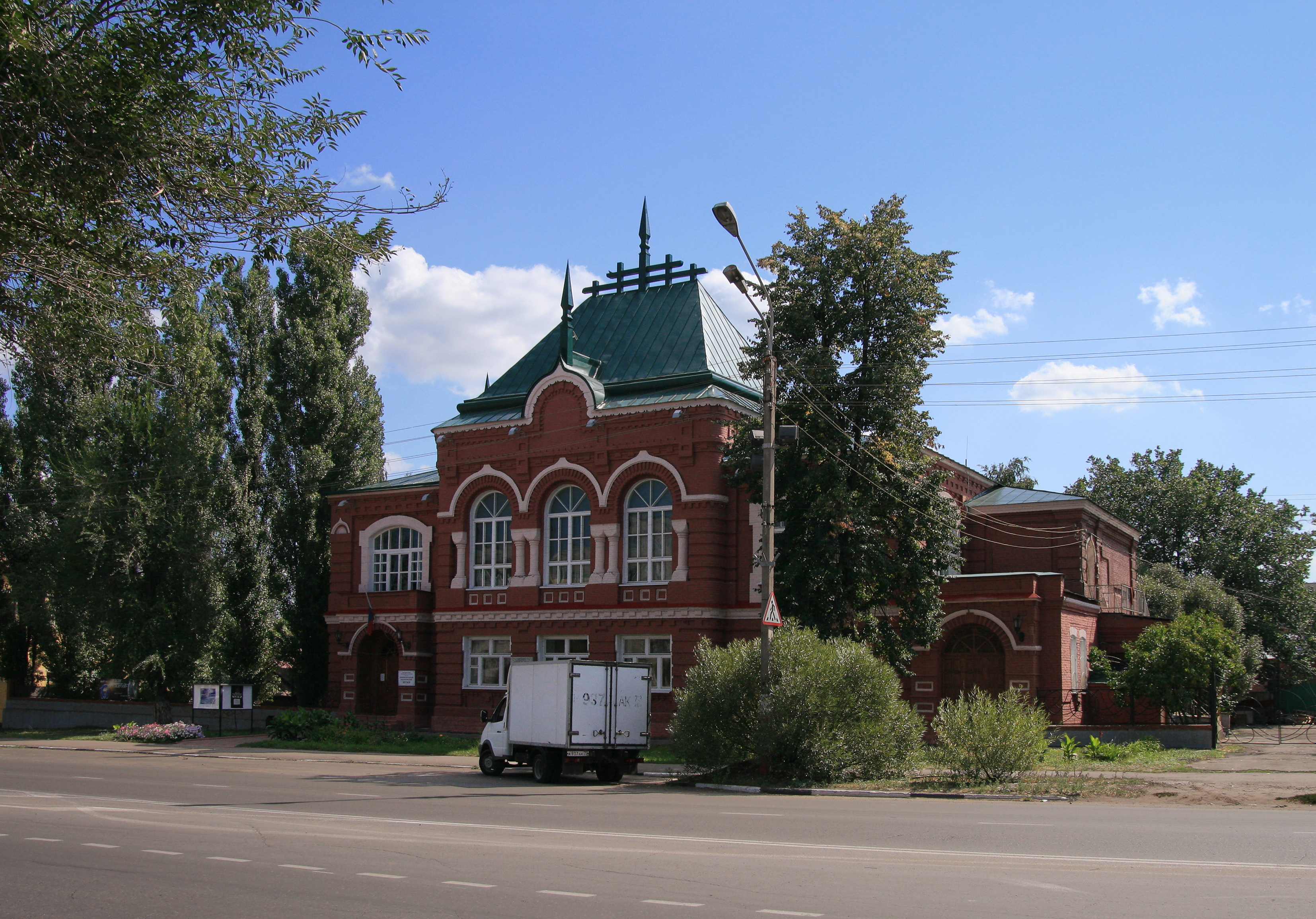 The building was built in the beginning of the XX c. by the merchant F.G. Markov for the orphans' home, 1920-1930 - orphanage, 1941-1945 - hospital No, 1710, 1952-1972 - children's hospital, since 1978 - the museum of local lore. Pronina Street 21, Dimitrovgrad, Ulyanovsk Oblast